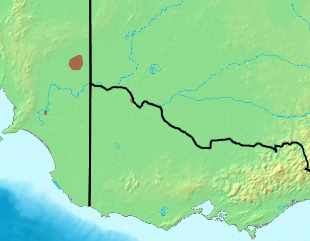 The Distribution of the Black-eared Miner